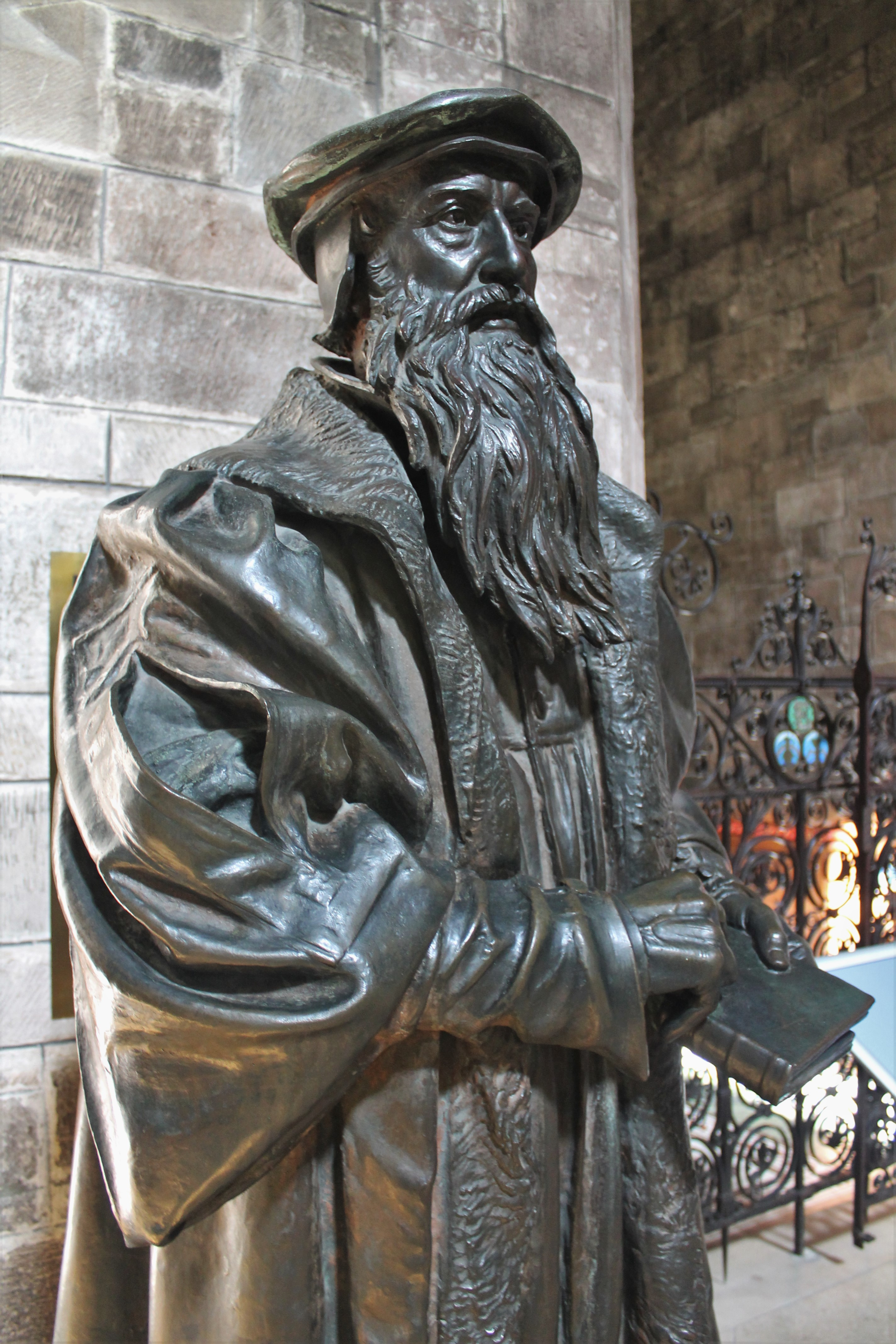 James Pittendrigh Macgillivray's statue of leading reformer John Knox in St Giles' Cathedral, Edinburgh